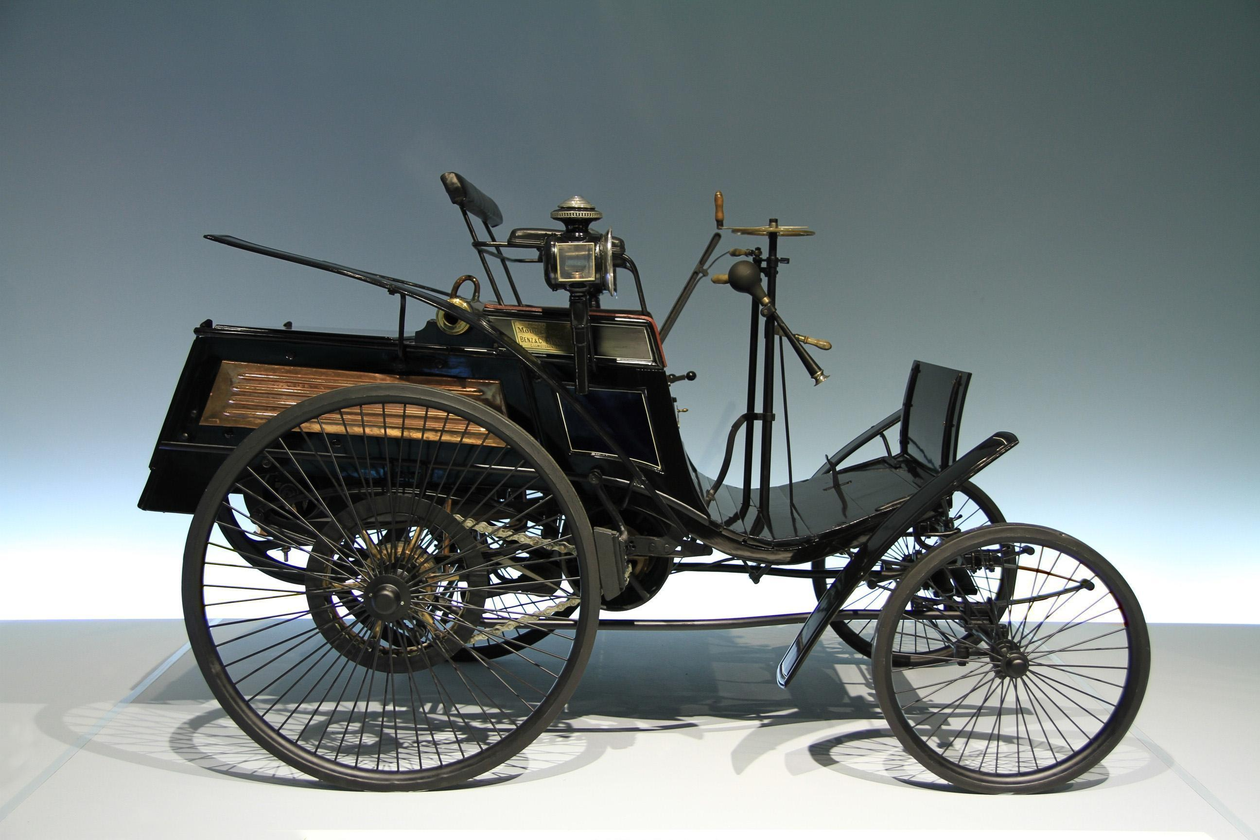 Benz Patent-Motorwagen "Velo" of 1894 in the Mercedes-Benz Museum in Stuttgart. Introduced in 1894, the Velo was the first standardized production automobile from the Baden inventor Carl Benz. It has a one-cylinder engine which in its initial version had a displacement of 1,045 cm3 (63.8 cu in) and generated 1.5 hp (1.1 kW).